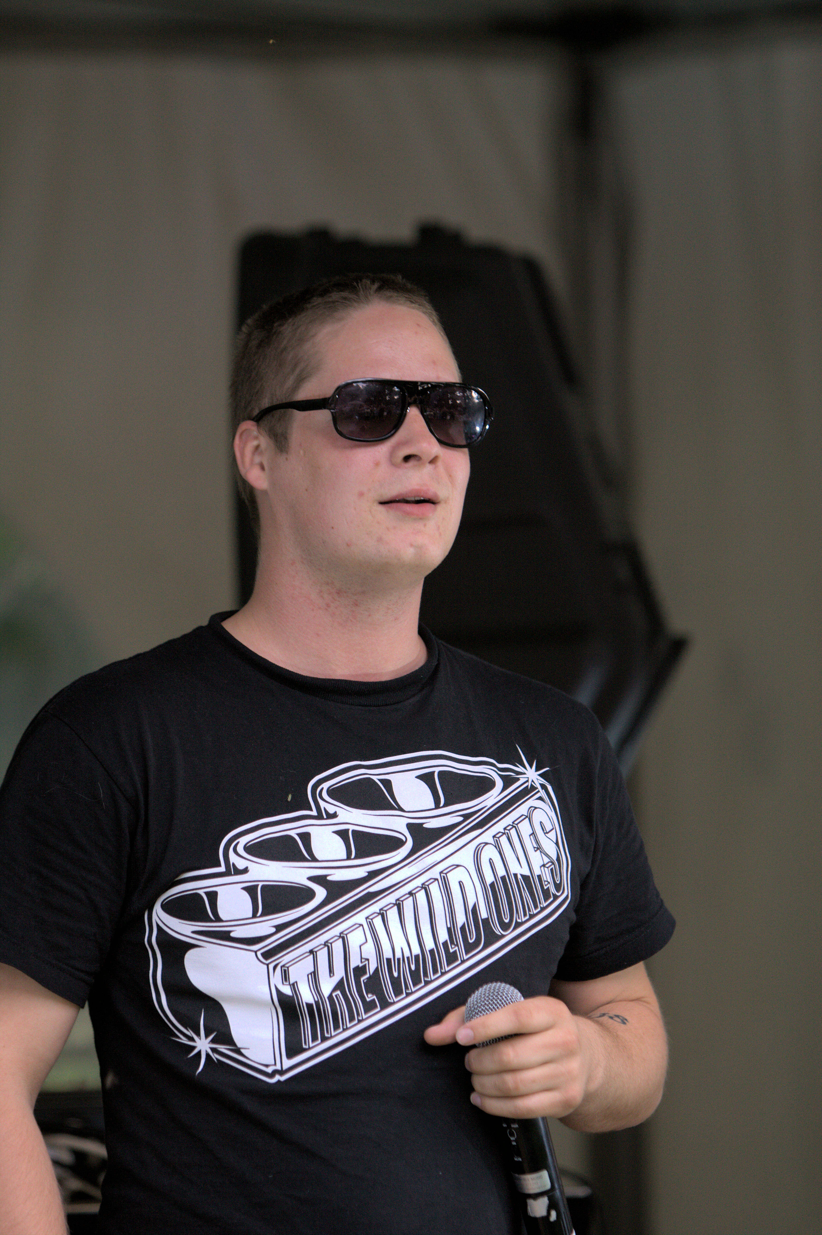 Aste finnish rap-artist